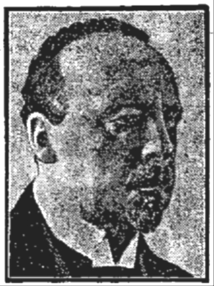 Ernst Zahn (1867-1952), Swiss author